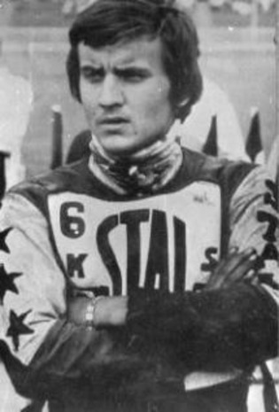 Krzysztof Okupski - polish speedway rider.